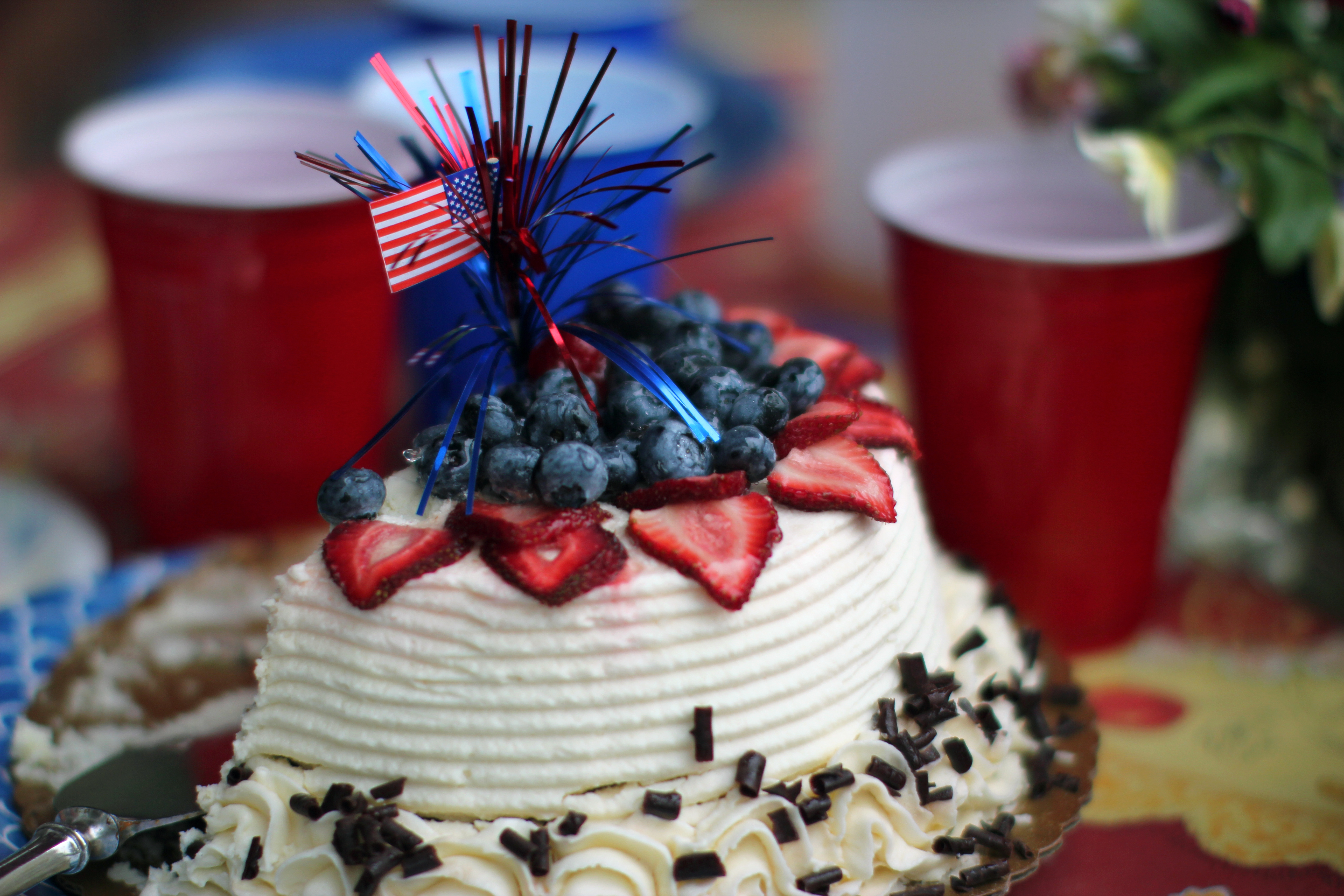 A chocolate cake during the 4th of July